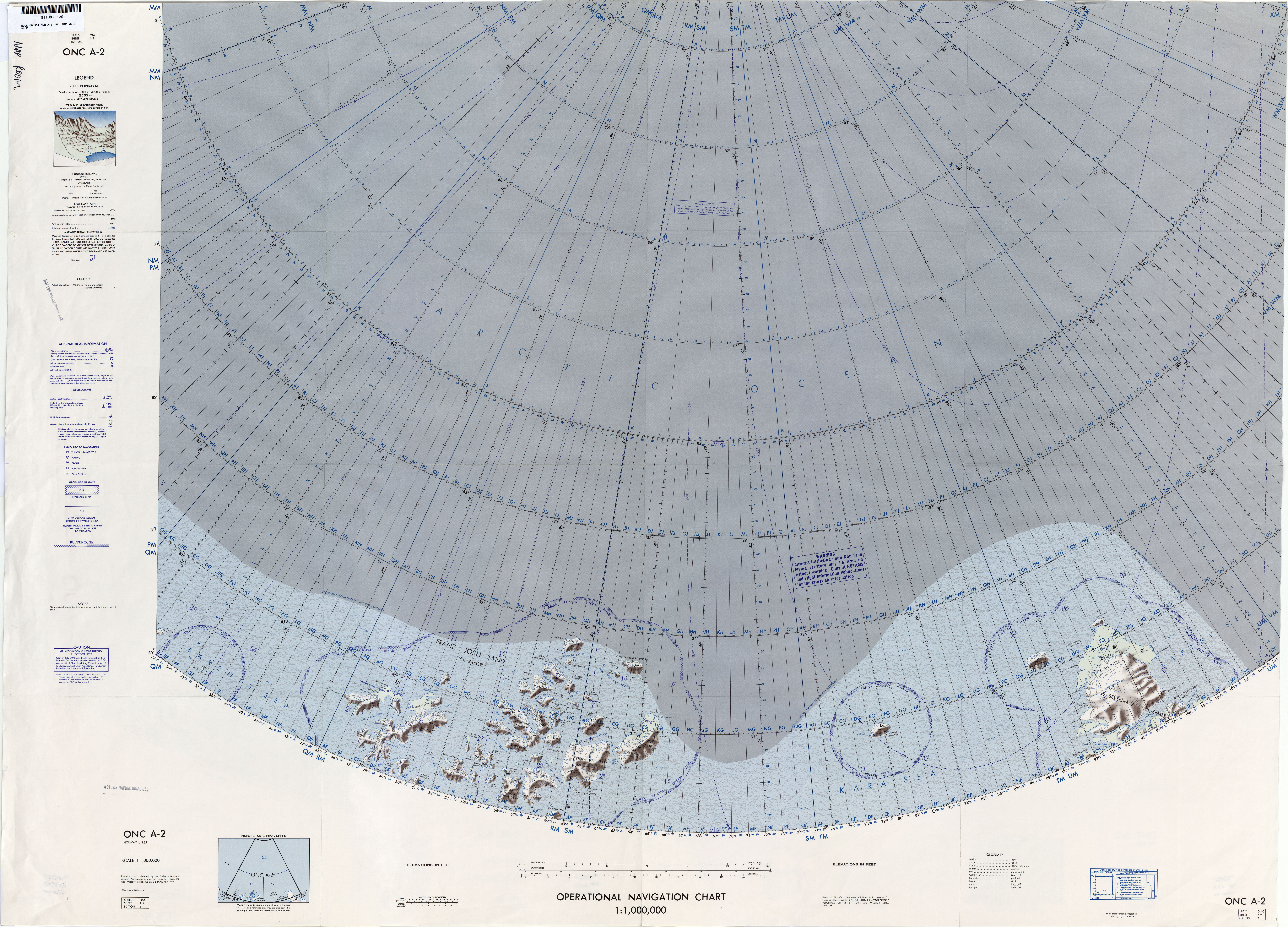 1:1,000,000 scale Operational Navigation Chart, Sheet A-2, 2nd edition. Covers Norway and the U.S.S.R. Polar Stereographic Projection. Central longitude 69 12 30E.